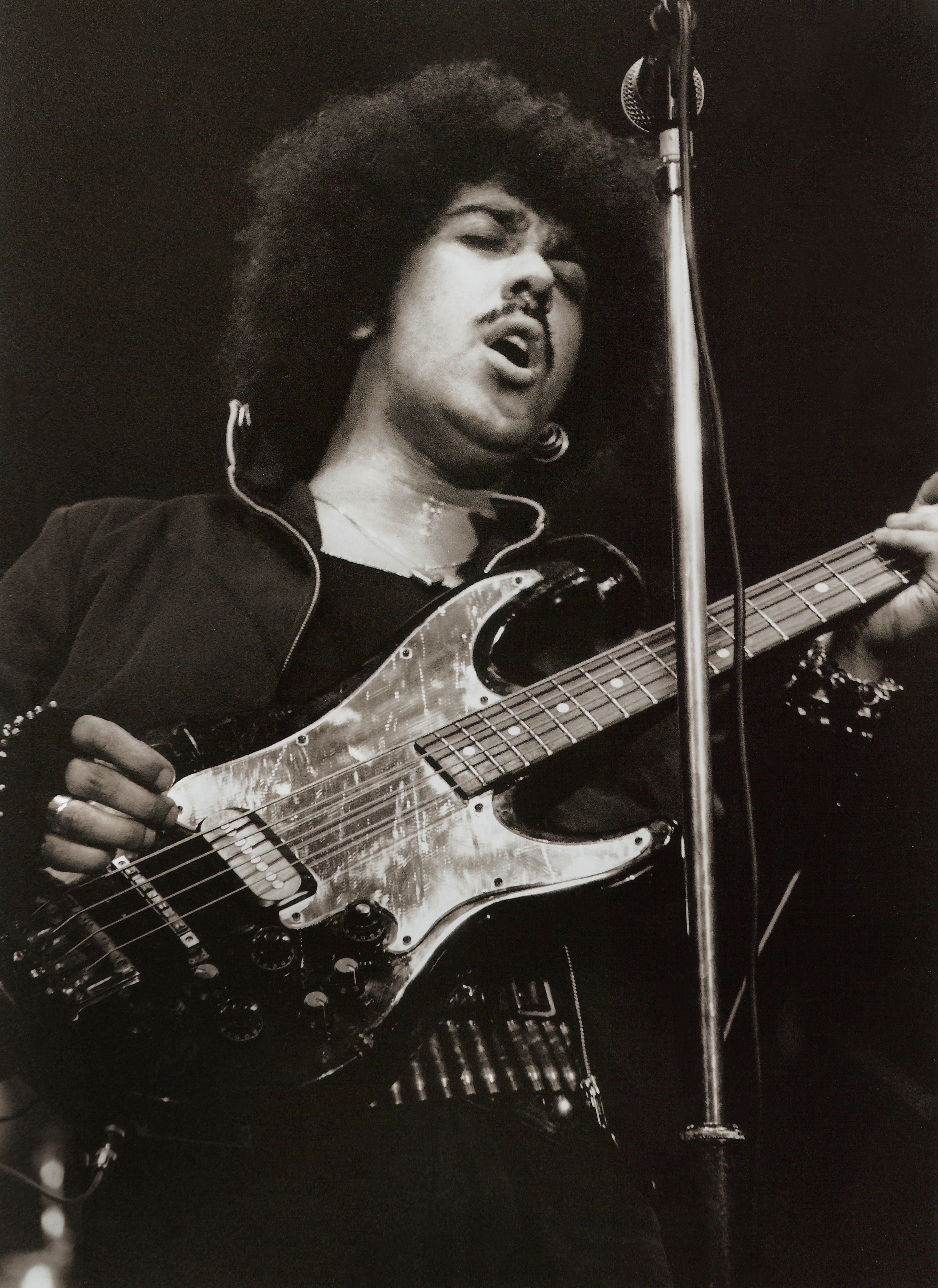 THIN LIZZY - Manchester Apollo - 1983